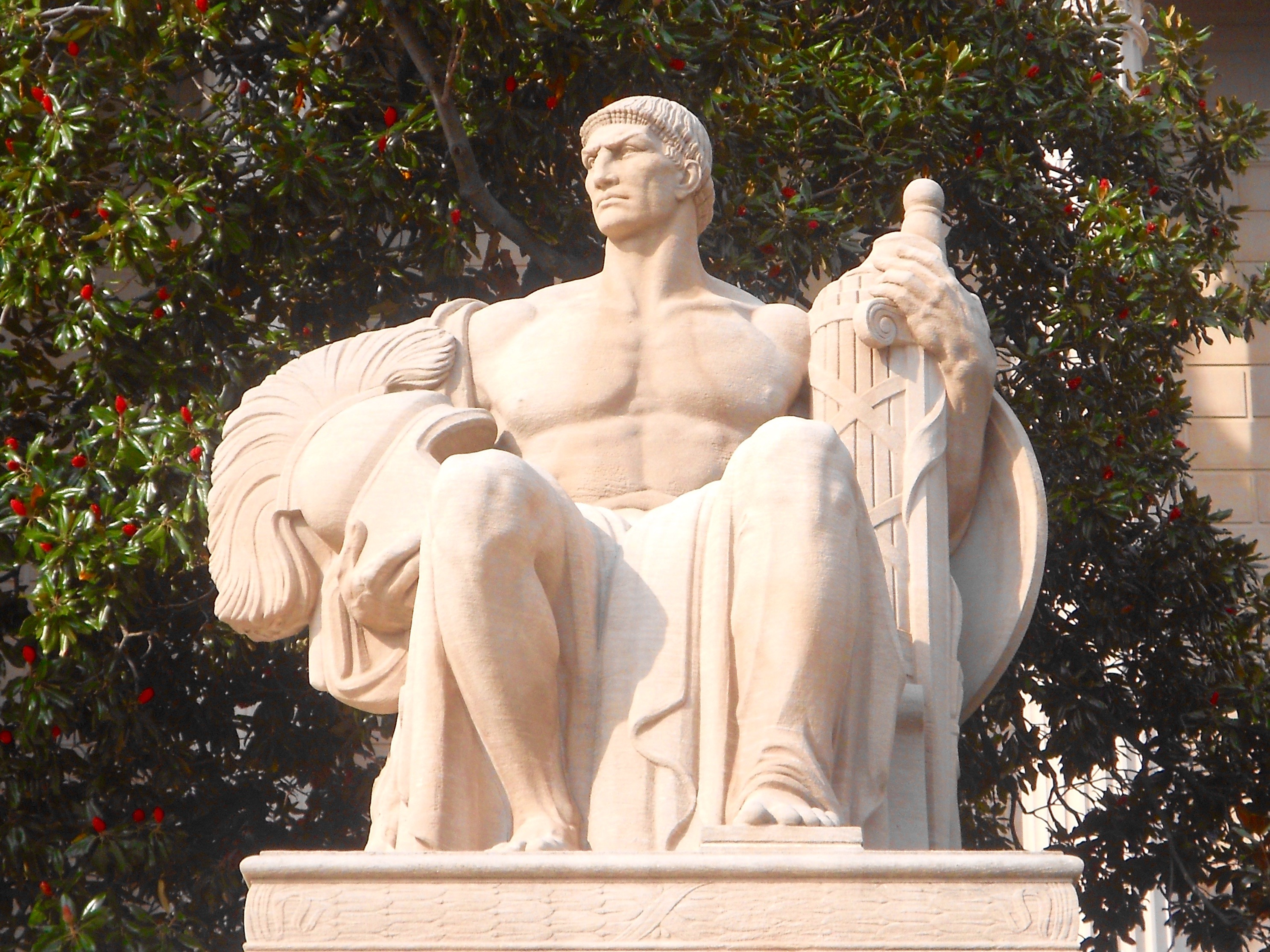 The 1935 sculpture "Guardianship" by James Earle Fraser on the east side of the south entrance of he National Archives in Washington, D.C. No copyright notice, so in the public domain. Carved below the figure are the words "Eternal vigilance is the price of liberty" SIRIS metadata follows: Guardianship, (sculpture) Vigilance, (sculpture) SCULPTOR: Fraser, James Earle 1876-1953 Waugh, Sidney 1904-1963 ARCHITECT: Pope, John Russell 1874-1937 CARVER: Ratti, Edward H. 1904-1969 MEDIUM: Sculpture: Indiana limestone; Base: granite TYPE: Sculptures-Outdoor Sculpture Sculptures OWNER/LOCATION: National Archives and Records Administration 7th & Pennsylvania Avenue Steps at south entrance Washington District of Columbia DATE: 1935 TOPIC: Allegory--Civic--War Figure male--Full length CONTROL NUMBER: IAS 78250010 NOTES: Michael Richman, SAAM curatorial assistant, 1967-1969. Gurney, George, "Sculpture and the Federal Triangle," Washington, DC: Smithsonian Institution Press, 1985, pg. 157-196. Goode, James M., "The Outdoor Sculpture of Washington, D.C., A Comprehensive Historical Guide," Washington, D.C.: Smithsonian Institution Press, 1974, pg. 151. Goode, James M., "Washington Sculpture: A Cultural History of Outdoor Sculpture in the Nation's Capitol," Baltimore, MD: Johns Hopkins University Press, 2008, no. 4.6. SUMMARY: A seated allegorical male figure representing Guardianship holds the helmet of protection in his right hand and a sheathed sword and fasces, the symbol of governmental power, in his left hand. Carved in relief around the base are images of weapons and helmets. DATA SOURCE: Art Inventories Catalog, Smithsonian American Art Museums